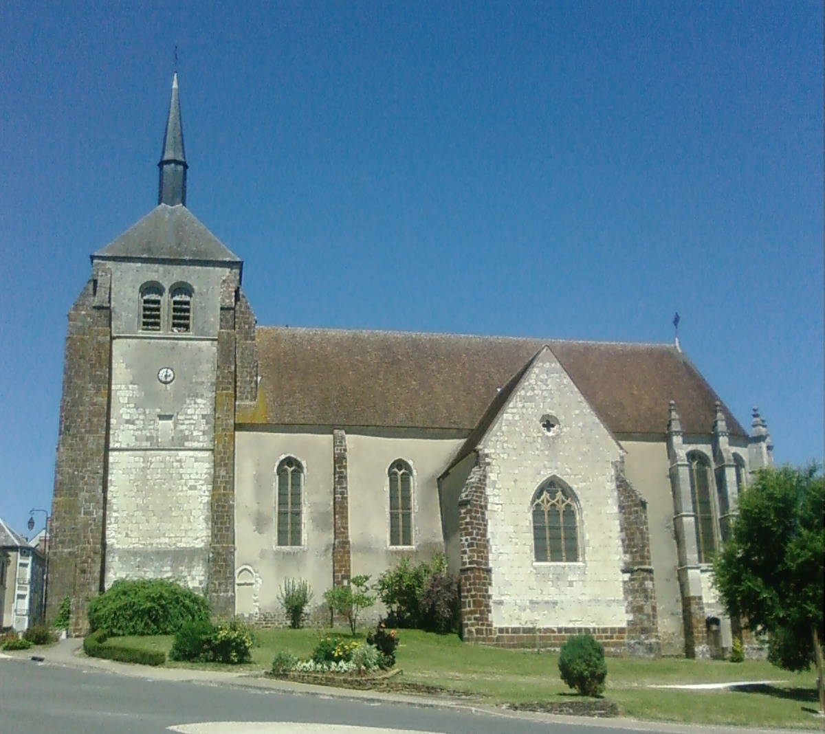 Picture of church Saint-Aignan (Jars, France).